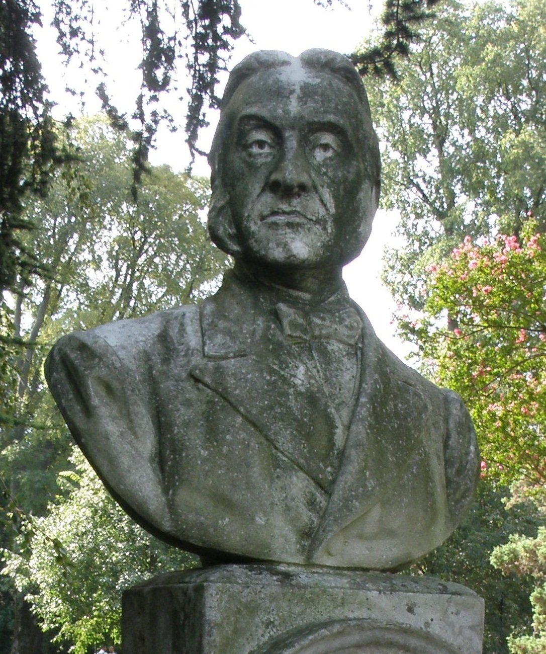 Giacomo Levi Civita (sculpture-bust, Padova-2012.08.30). Sculptor Augusto Sanavio